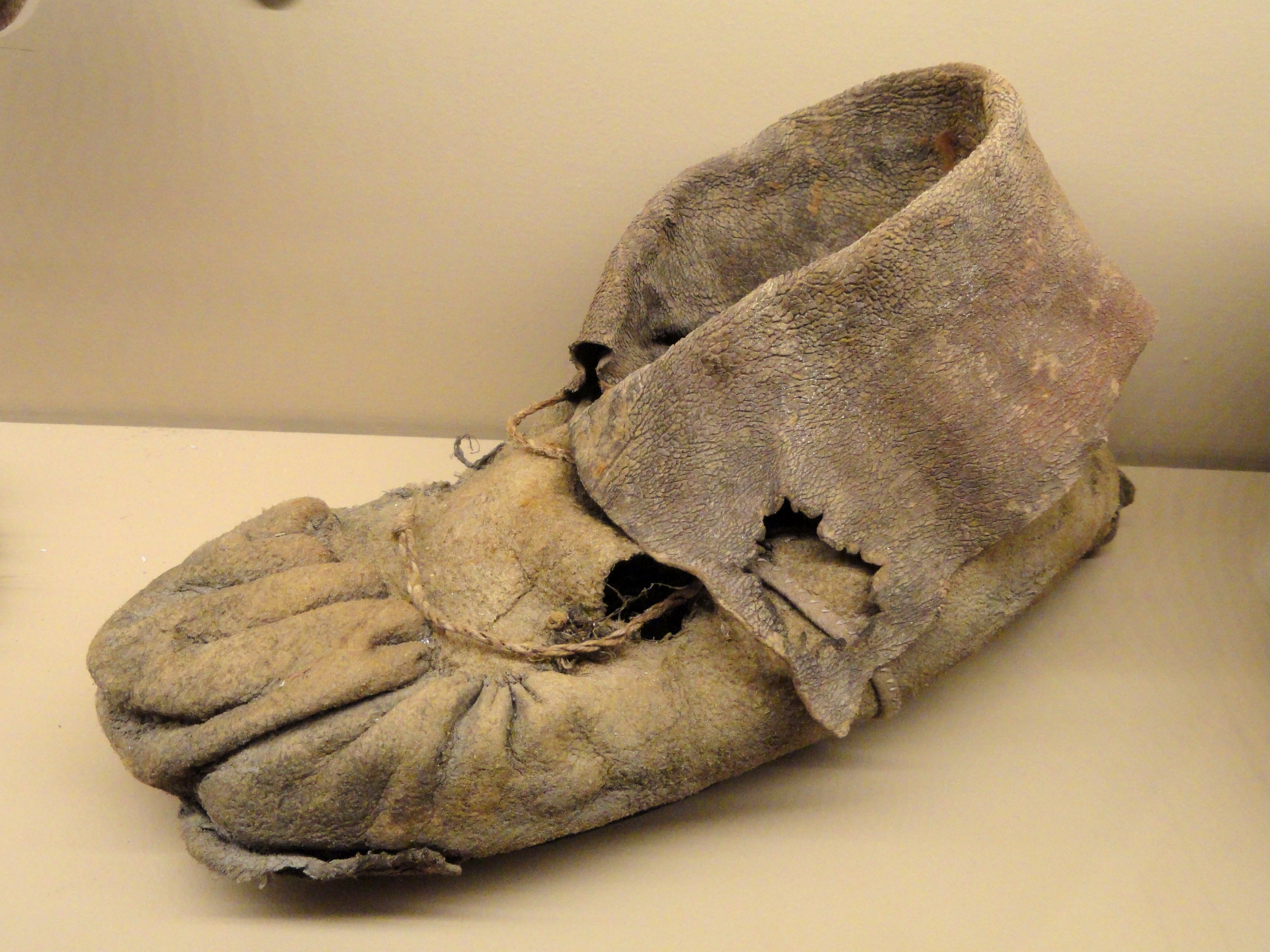 Exhibit in the Natural History Museum of Utah, Salt Lake City, Utah, USA. This item is old enough so that it is in the public domain.